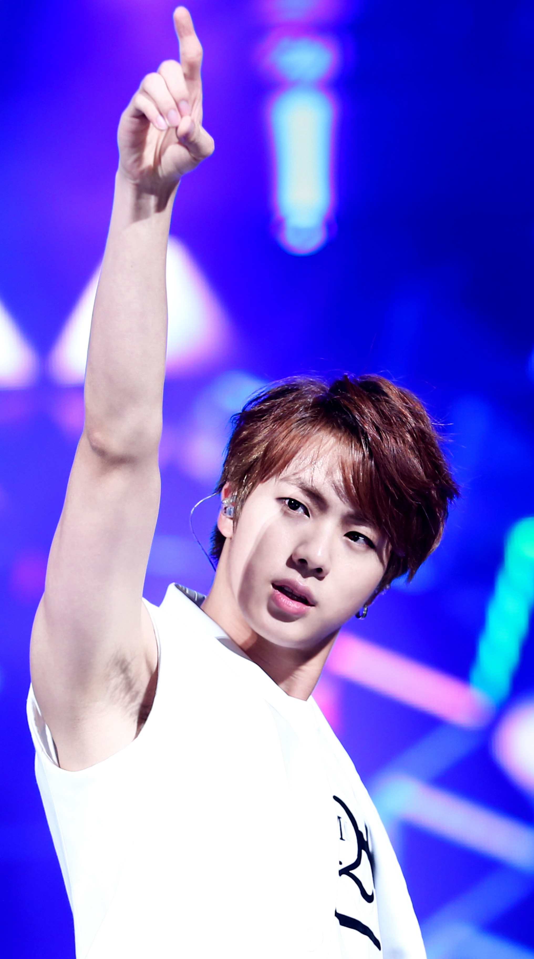 Jin performing at 'Music Bank' in Mexico, 30 October 2014